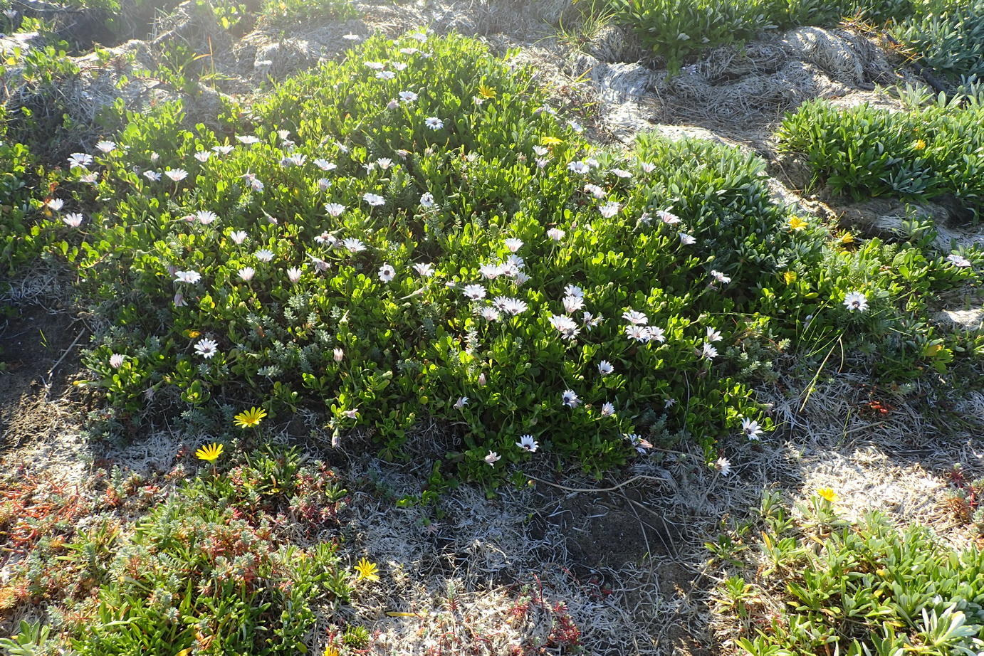 Trailing African Daisy (Dimorphotheca fruticosa). Species of plant.